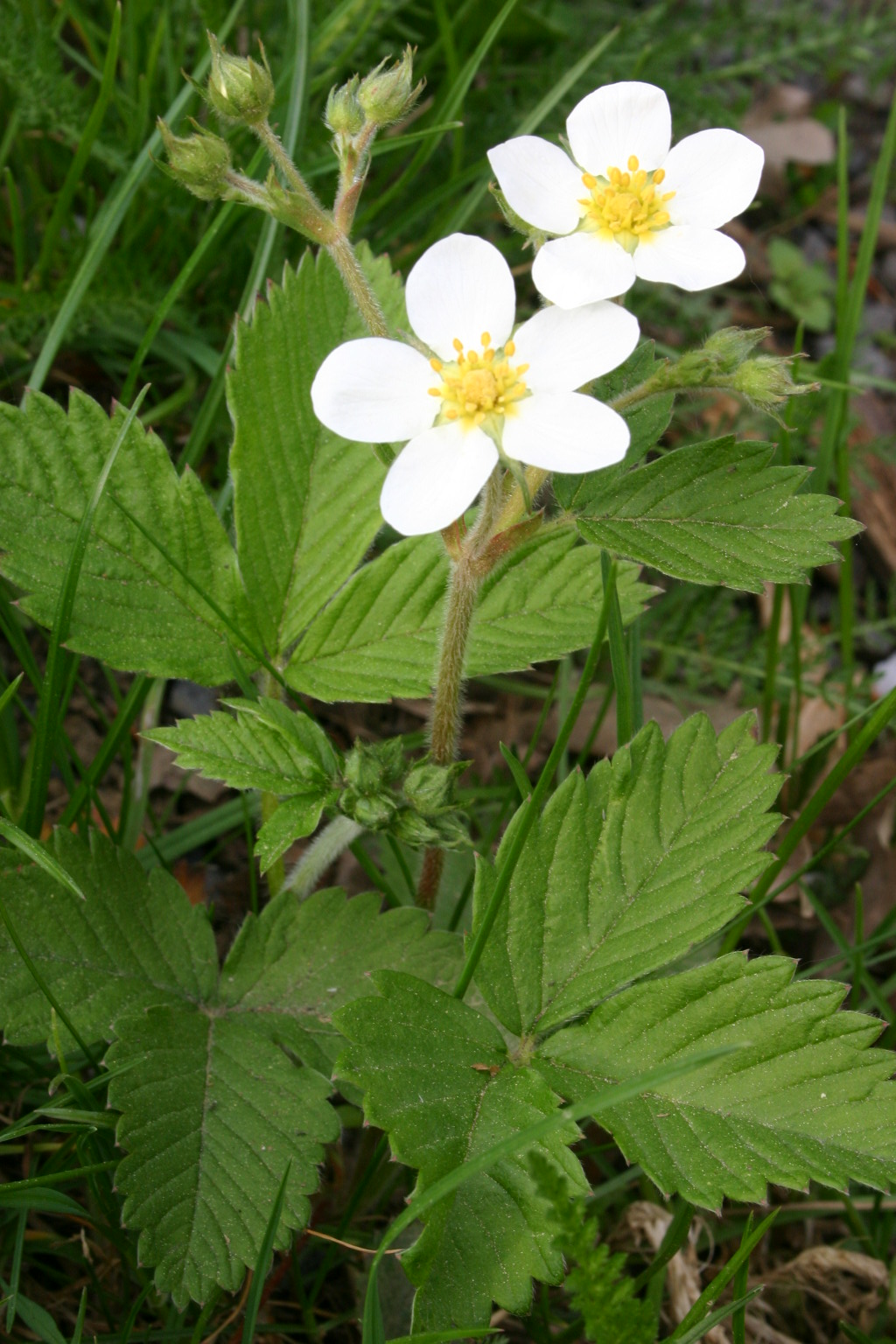 Fragaria moschata